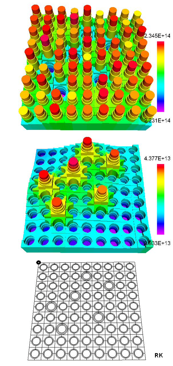 Fuel element quarter of a pressurized water reactor, projective representation: The discretization grid (bottom), thermal neutron flux (center) and fast neutron flux with drawn control rods. The numbers are the neutron fluxes in the unit number of neutrons per square centimeter and second at a specific power of 37 W/g heavy metal